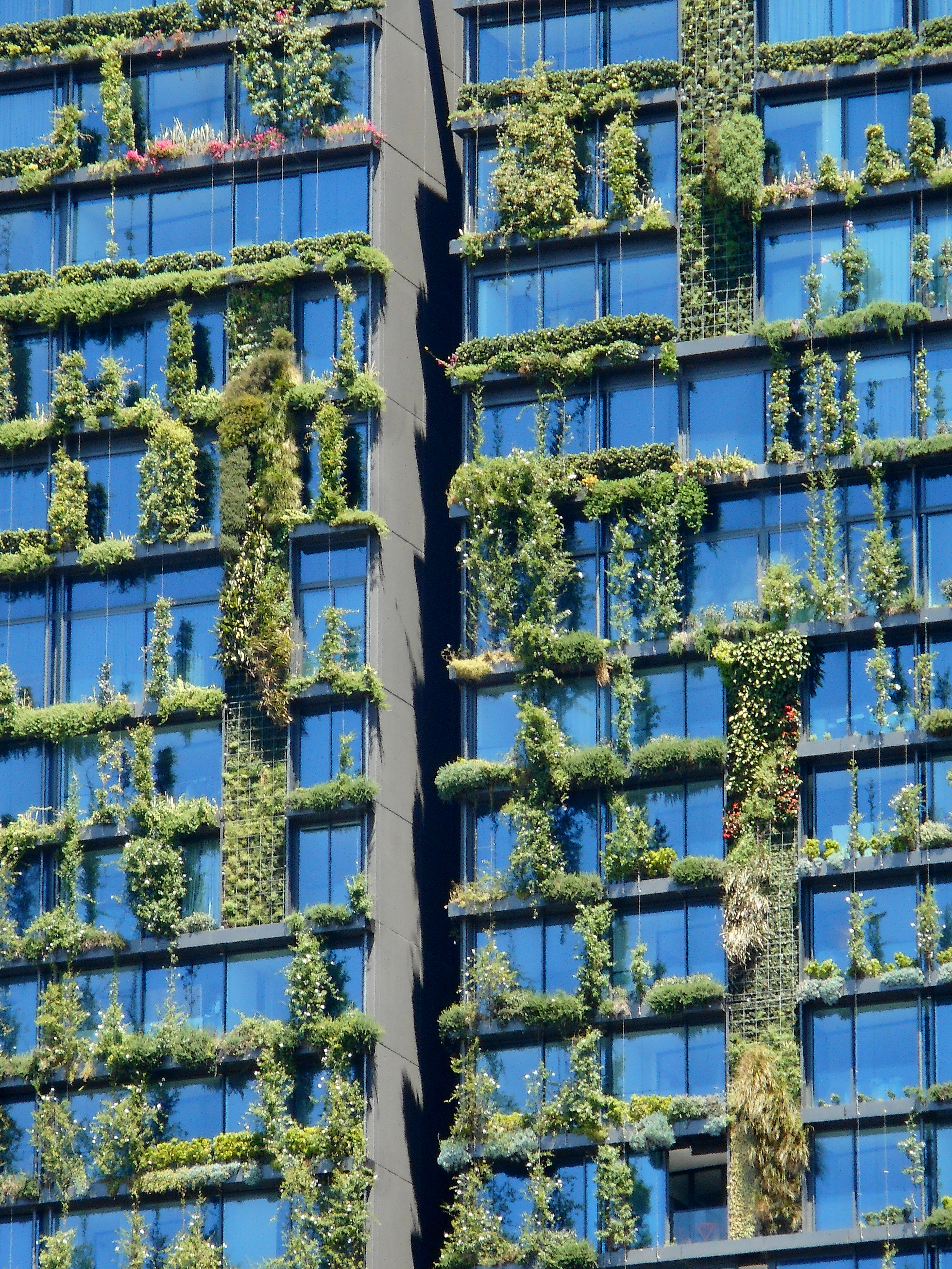 One Central Park, Broadway, Sydney